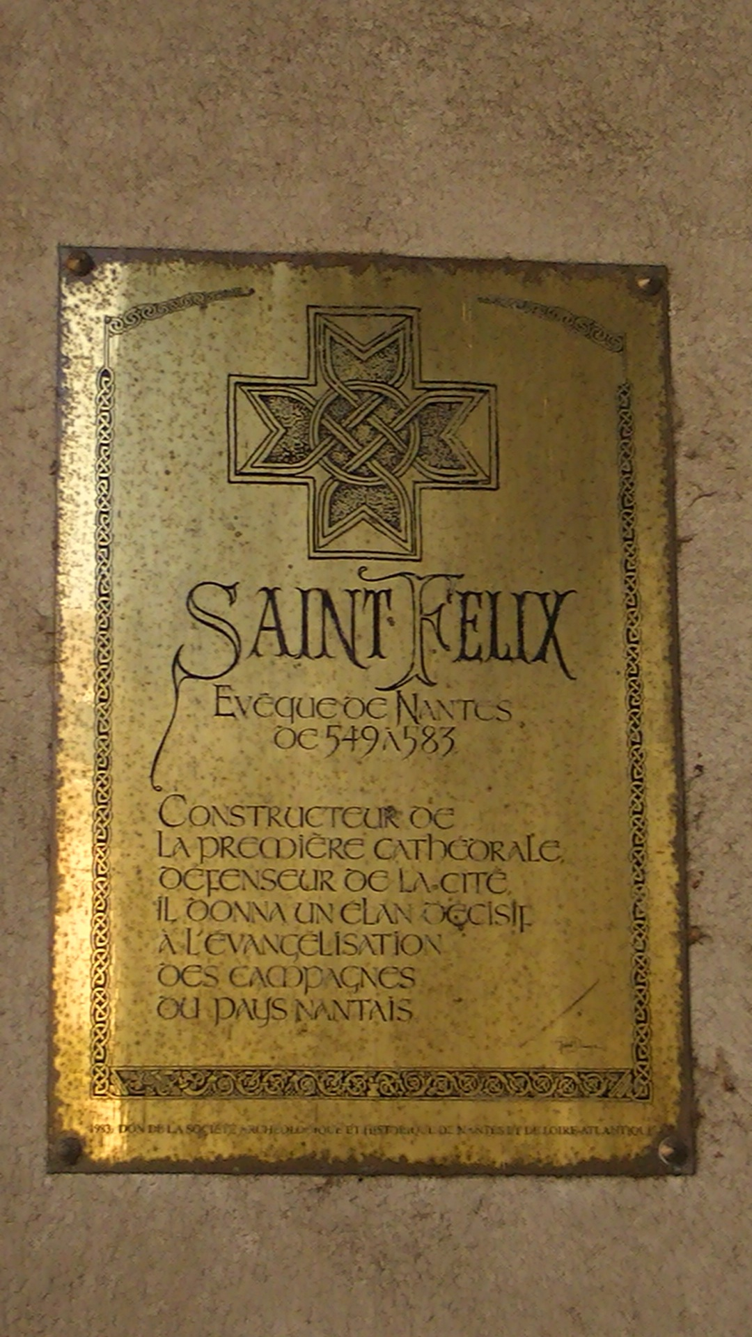 Plaque commemorating St. Felix, Église Saint-Félix, Nantes